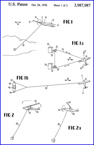 Charles McCutchen, Peter R. Payne taught crosswind kite power in their patent .